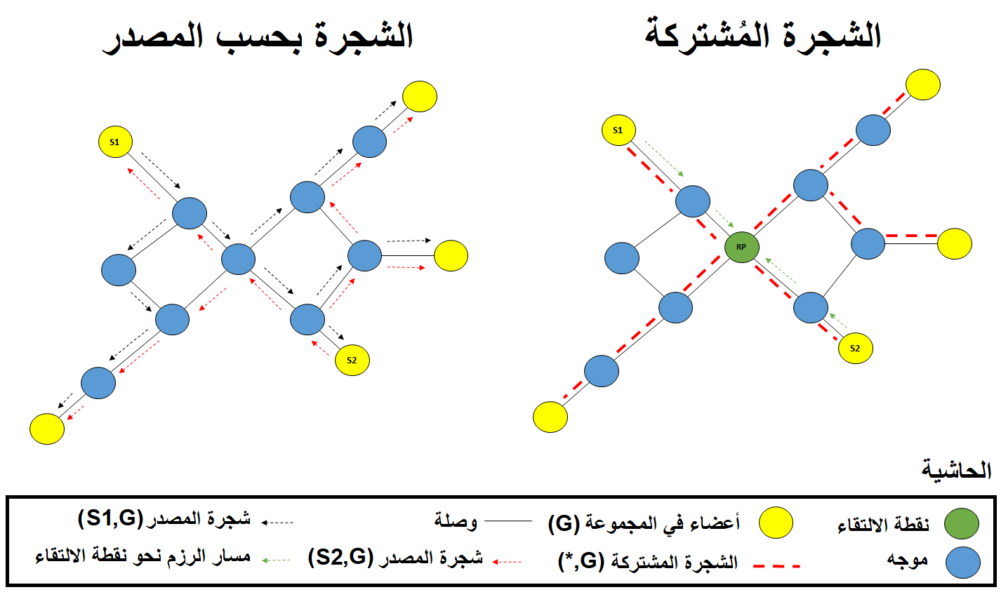 A comparison between the multicast shared tree and the multicast source-based tree.